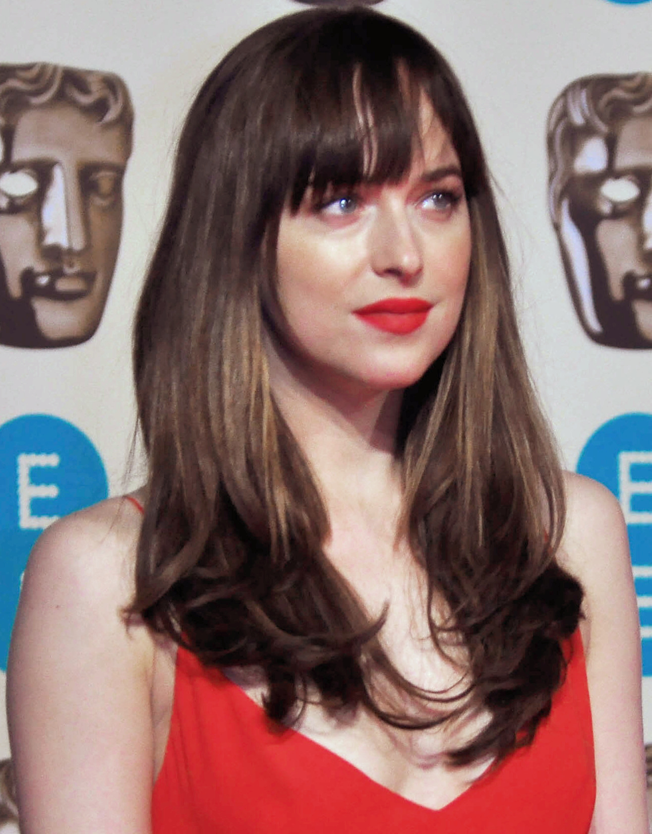 Dakota Johnson at BAFTA 2016